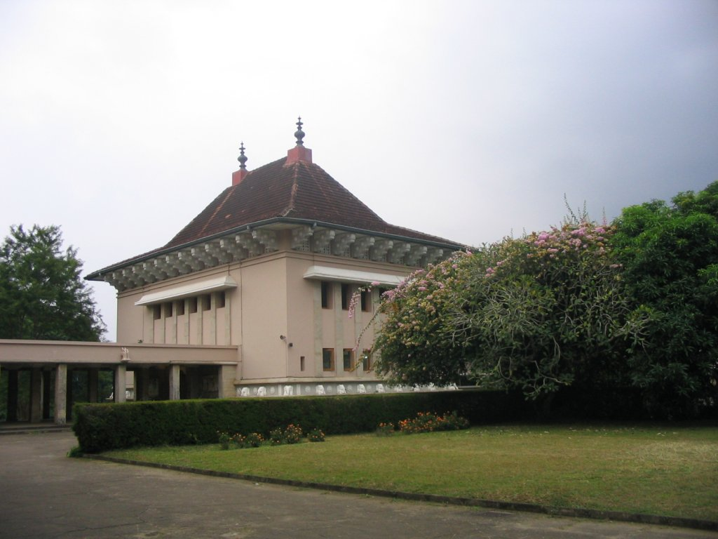 University of Peradeniya